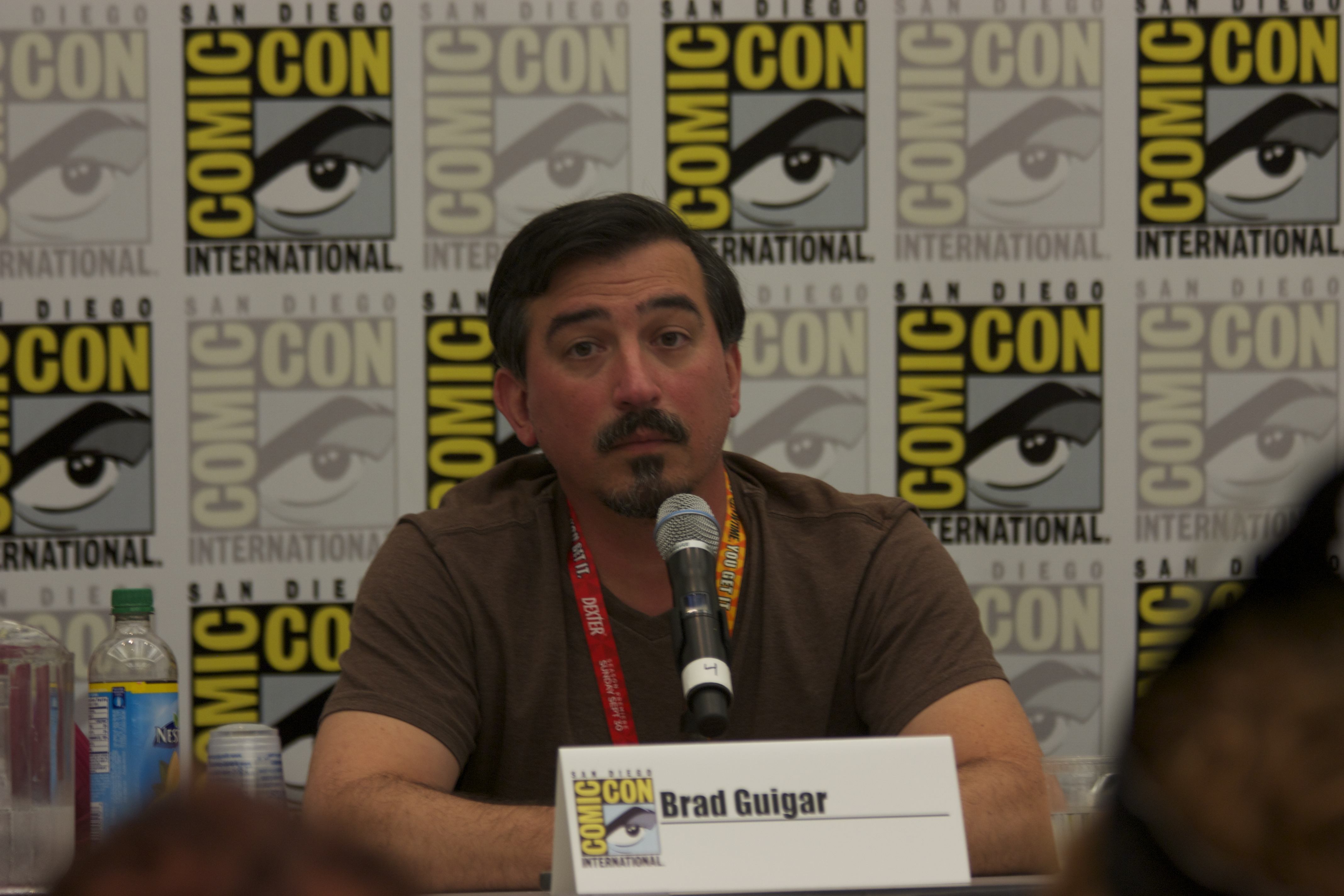 Brad Guigar speaking on the "Biz of Webcomics" panel at the 2012 Comic-Con International.